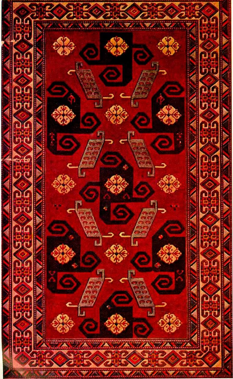 Kazakh rug, Kazakh schaool, XIX c.